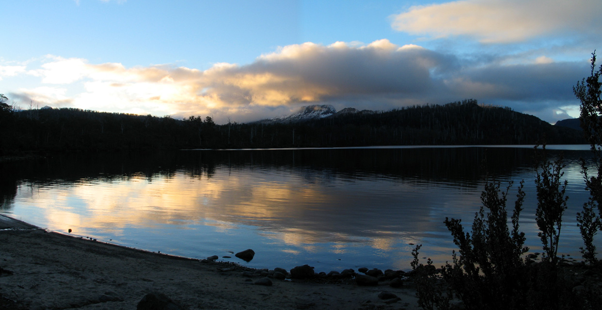 Sunset at Lake St Clair, Tasmania, Australia. Camera: Canon Powershot G5